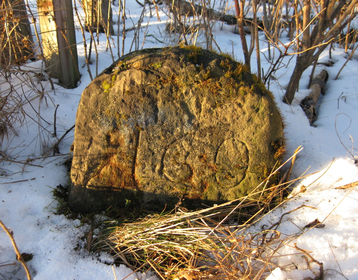 Trig Point, 1817, triangulation network in the Duchy of Westphalia